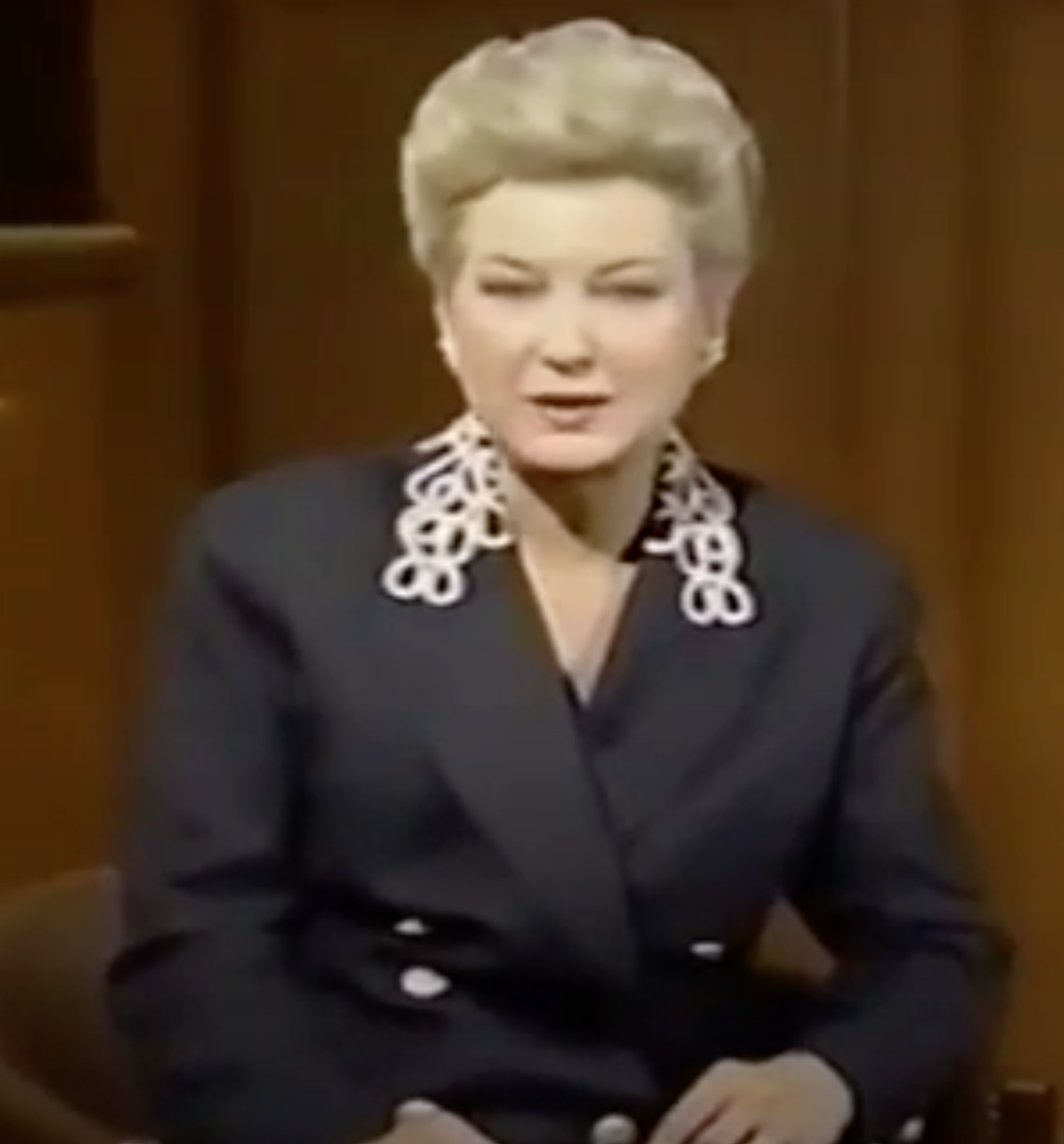 Maryanne Trump Barry, former Senior United States Circuit Judge of the United States Court of Appeals for the Third Circuit, gives an informal talk aimed at inexperienced criminal court judges discussing topics such as picking a jury, being asked to adjourn a case, how often counsel should be allowed to approach the bench and others. The video, "Criminal Trial Procedure", was originally published by the United States Federal Judicial Center and uploaded to YouTube by PublicResourceOrg.